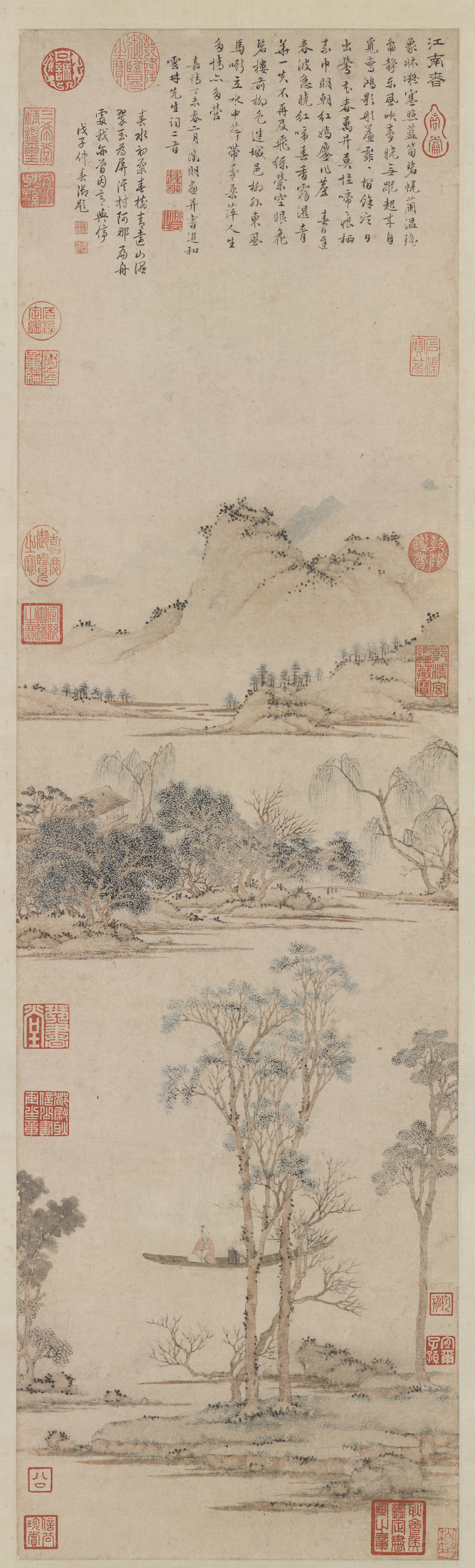 Spring in Kiangnan (江南春圖, 1547) by Wen Cheng-Ming(1470-1559) lower half detail. the entire size 106x30cm , hanging scroll in ink and light colours on paper. National Palace Museum, Taipei